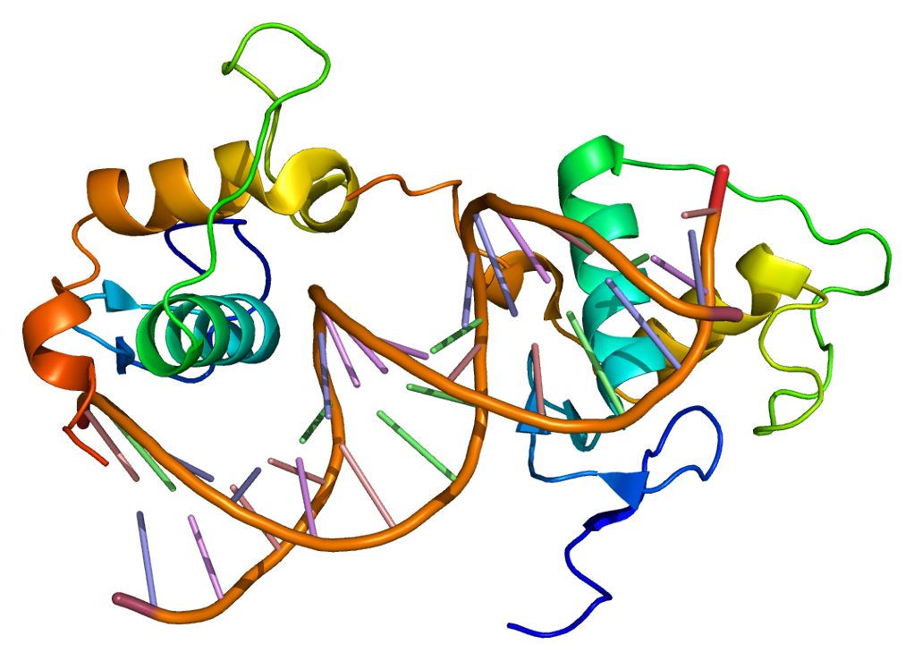 Structure of the RARB protein. Based on PyMOL rendering of PDB 1dsz.